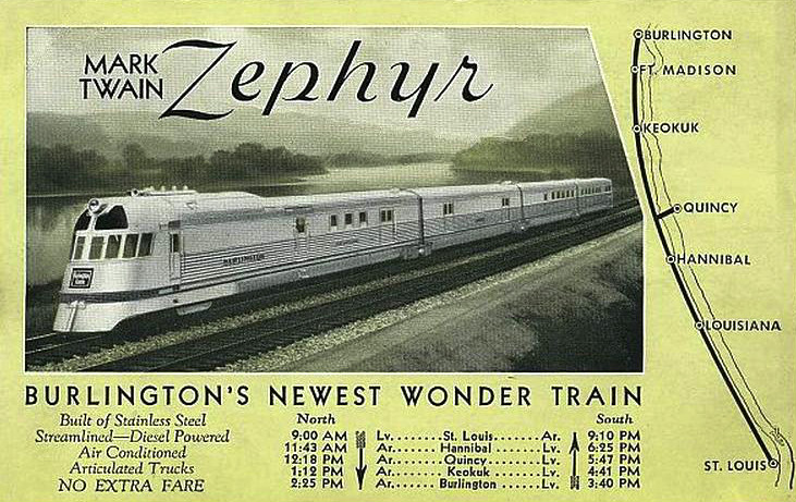 Photo postcard of the Mark Twain Zephyr with train's schedule and stops.